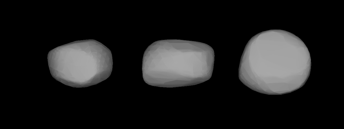 A three-dimensional model of 199 Byblis that was computed using light curve inversion techniques.